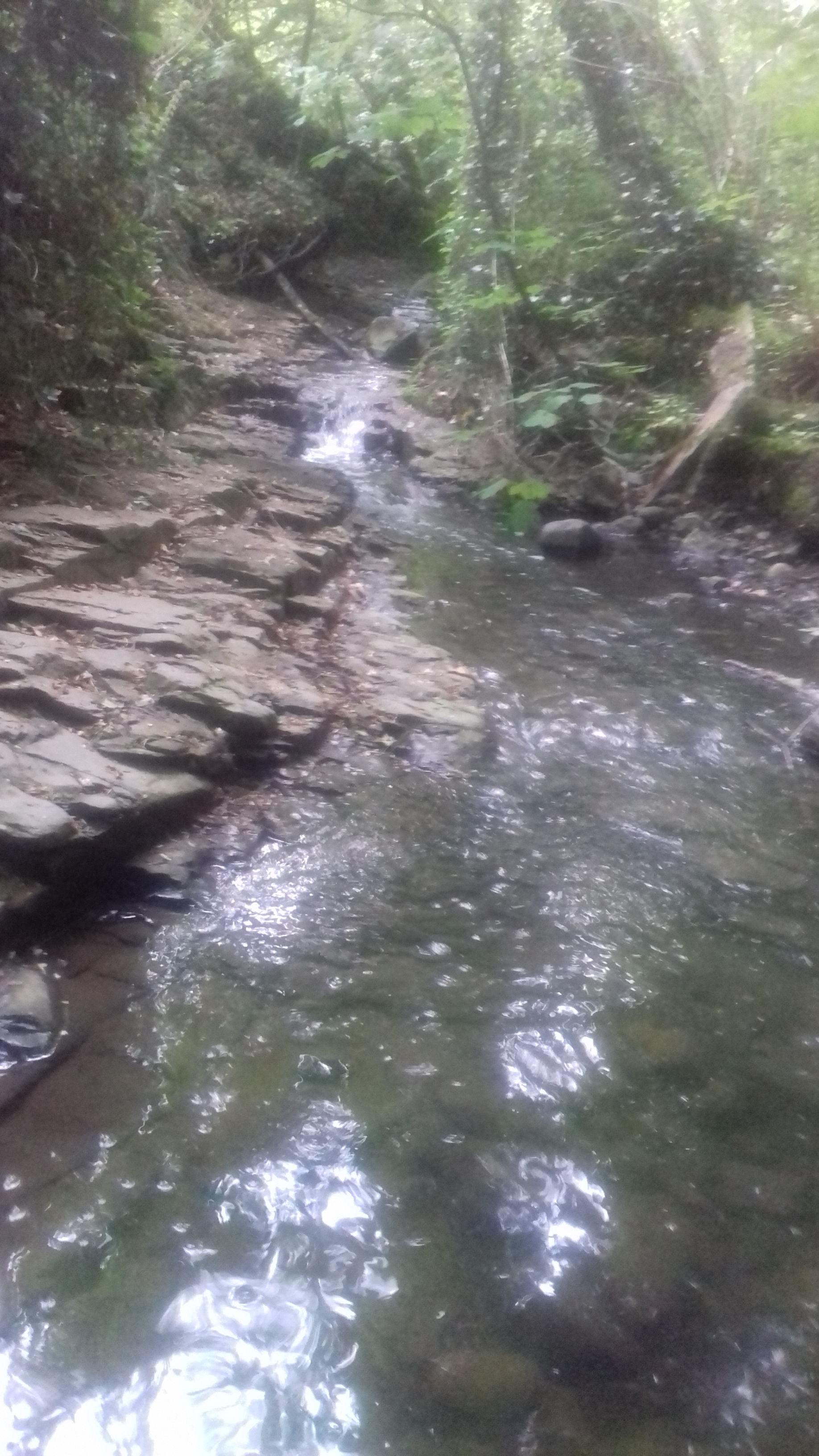 A public footpath near the Sandpit cottages on the Porterstown Road permits access to a narrow, wooded glen. Knockmaroon demesne on the left bank forms a border. The stream rises in Carpenterstown and runs to the River Liffey under the Lower Road at the Strawberry Beds.